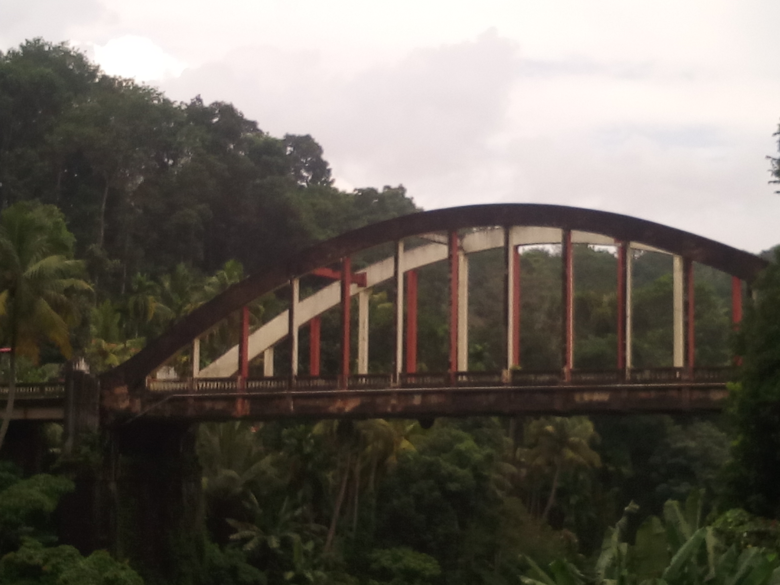 largest suspension bridge in Perinad pathanamthitta